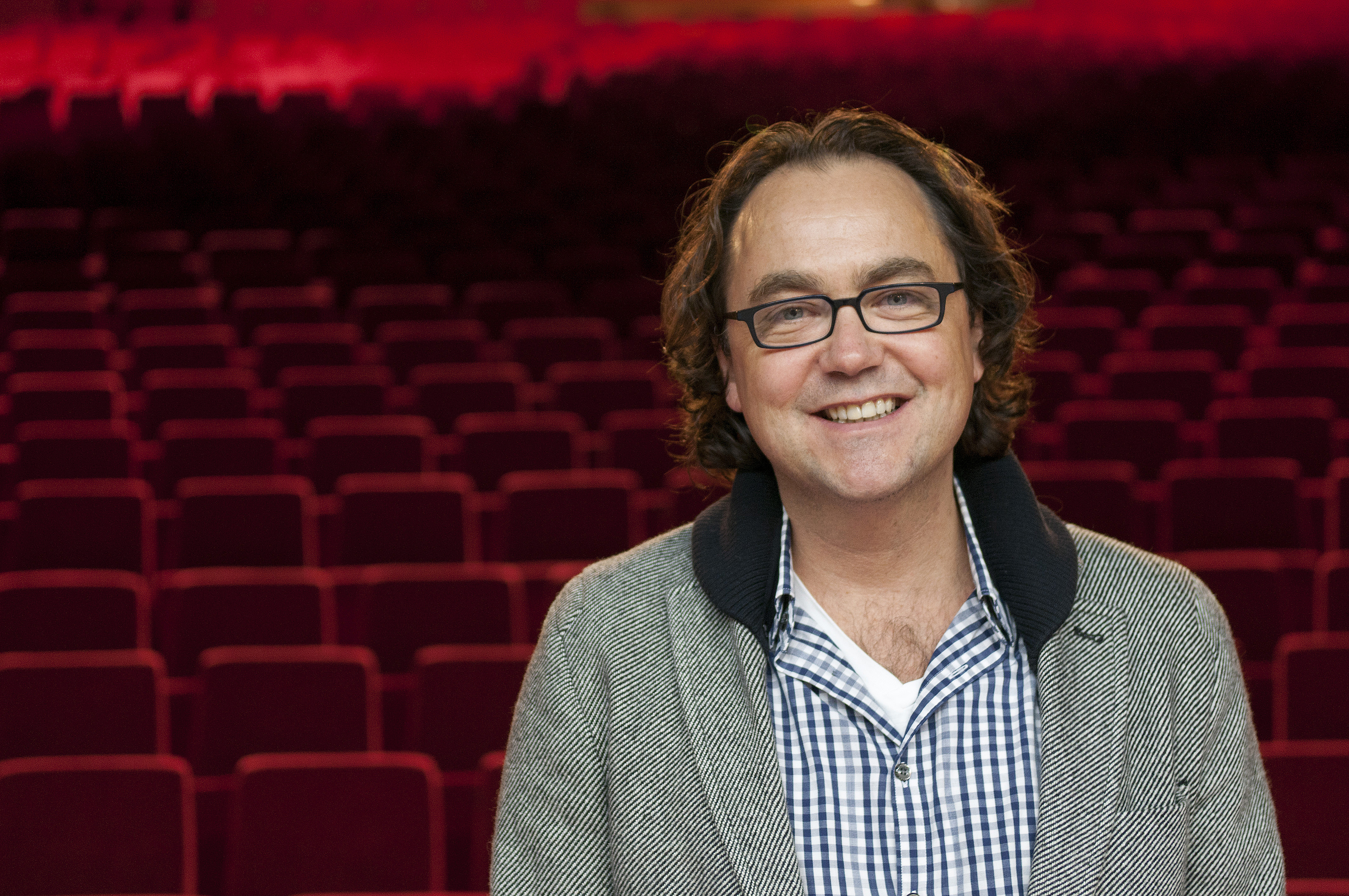 Portrait of Dutch theatre producer Fred Boot